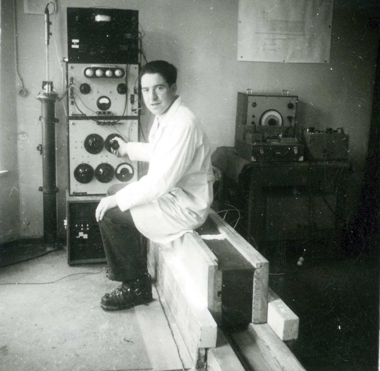 Helmut A. Müller, a physicist or physics student. (Possibly a self-portrait?)